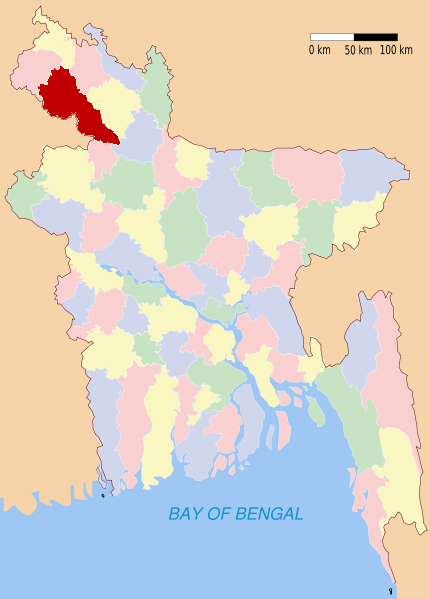 District locator map in red in Bangladesh